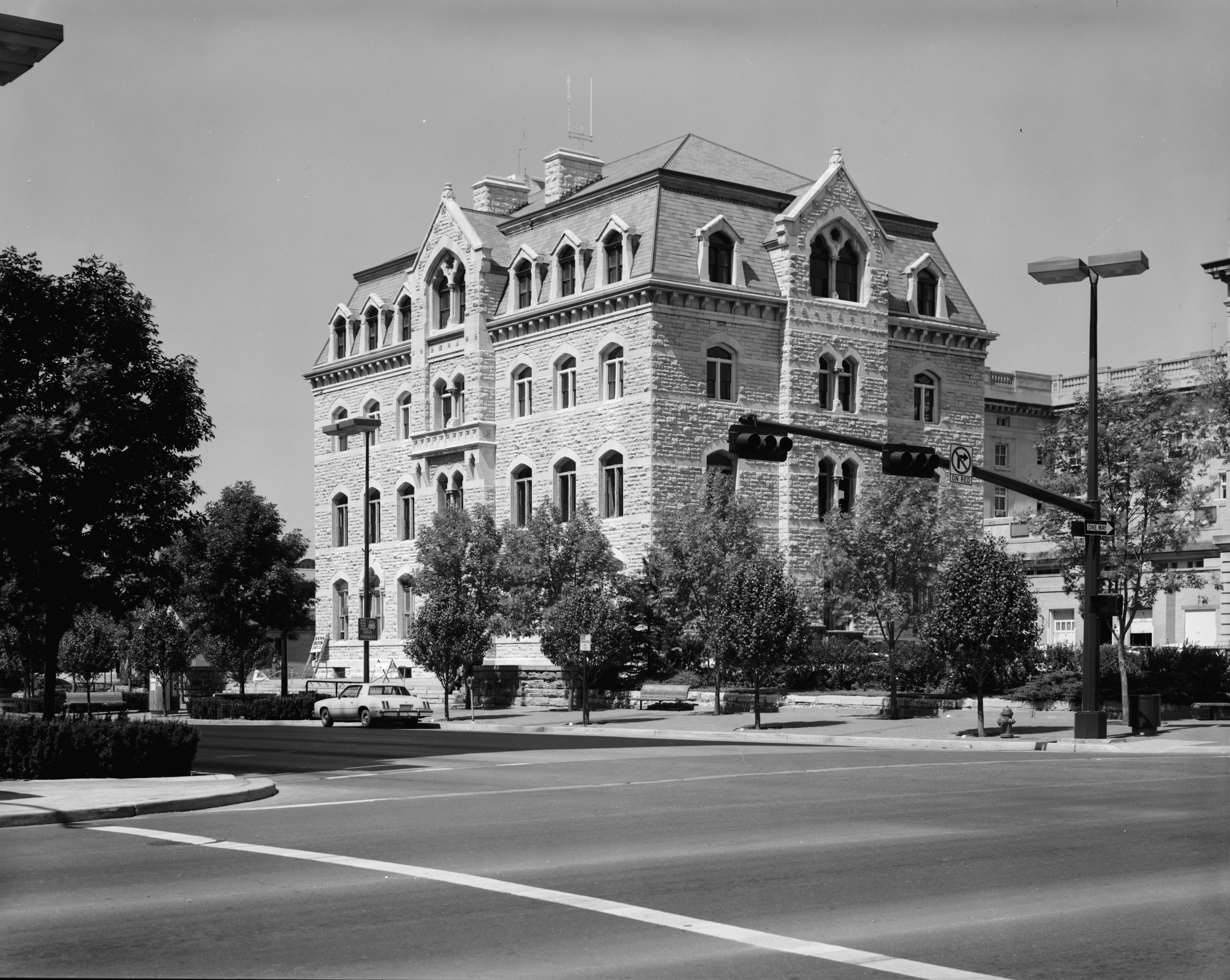 Exterior of City Hall in Lincoln, Nebraska, United States. Built in 1874 at 920 O Street, it is listed on the National Register of Historic Places.